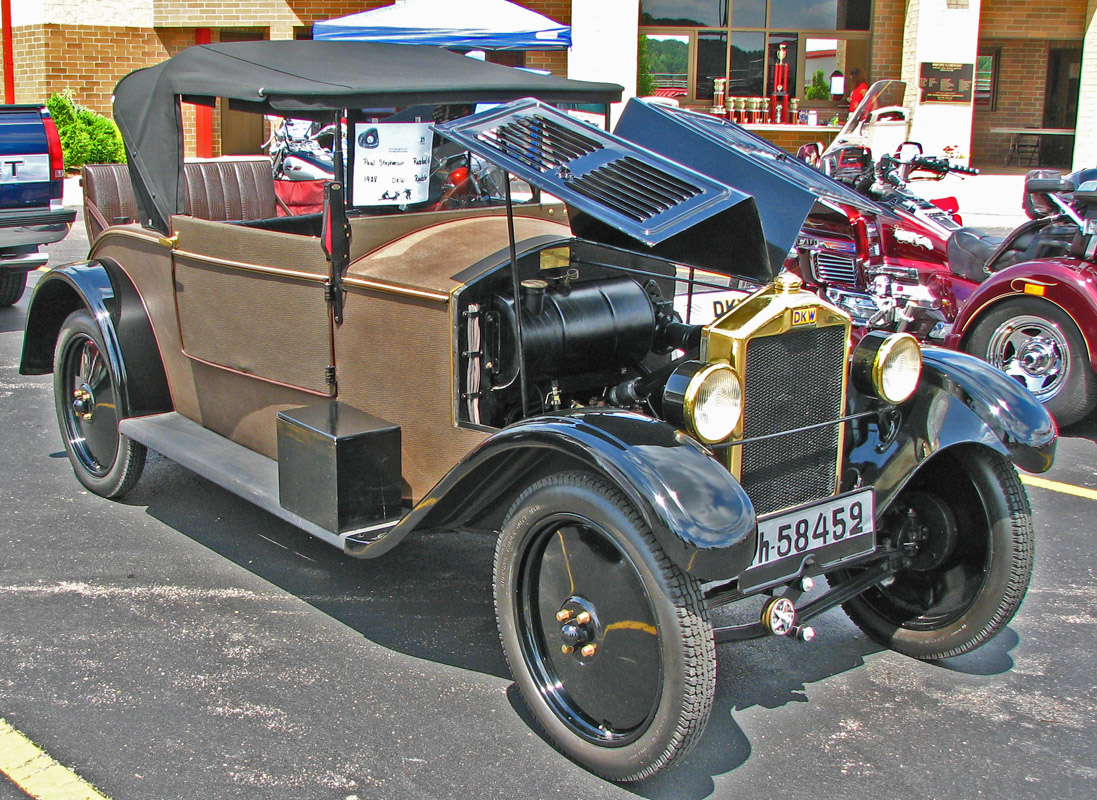 Using a 15-hp, 2-cylinder, 2-cycle engine this rare car is the the only known 1928 in the USA. 1740 were built in Germany and there are only 17 known remaining in Europe. DKW was a forerunner of the Audi. [ Interesting DKW History ]